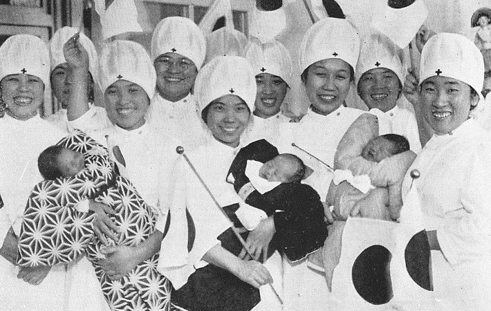 Japanese nurses and babies in 1930s. These babies were born on the same day(23 December 1933) when Crown Prince Akihito was born.